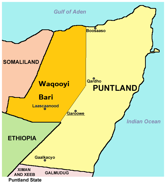 Map of Puntland State (according to Puntland government).